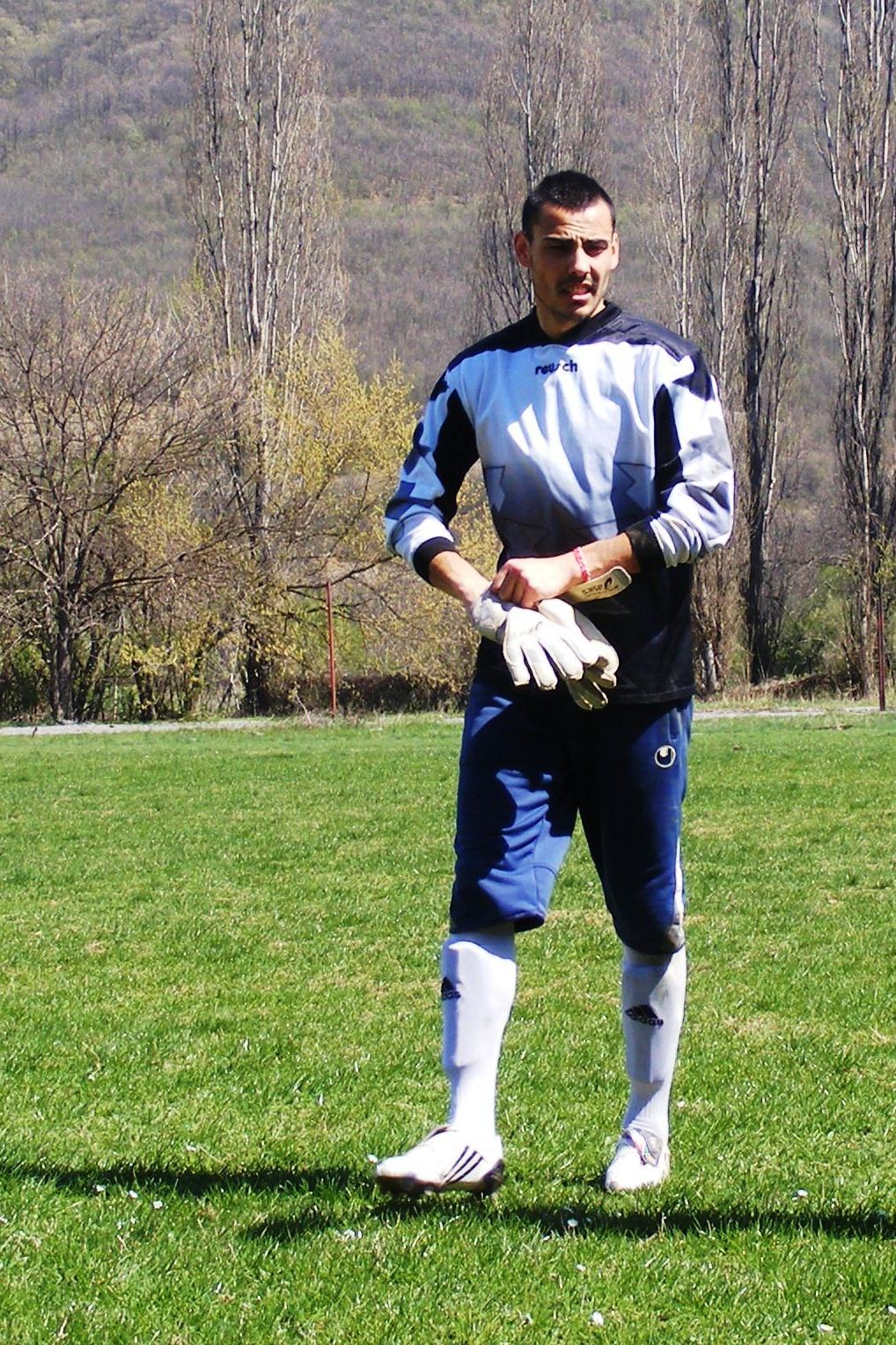 Petrov in 2011